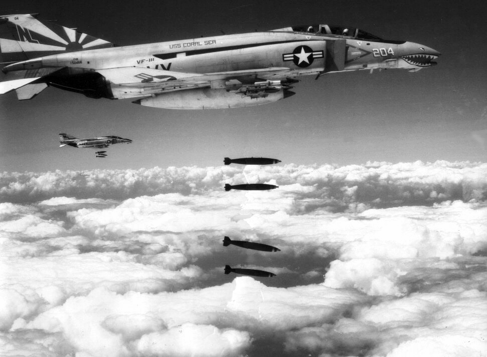 Two McDonnell Douglas F-4B Phantom II fighters of fighter squadron VF-111 Sundowners (foreground) and VF-51 Screaming Eagles drop four Mk 82 (500 lb/227 kg) bombs each in 1971/72. Both aircraft werd deployed aboard the aircraft carrier USS Coral Sea (CVA-43) during a deployment to Vietnam in 1971/72. The F-4Bs are also armed with AIM-9D Sidewinder missiles. The relatively small weapons load was typical for Coral Sea due to the limited catapult capacity.